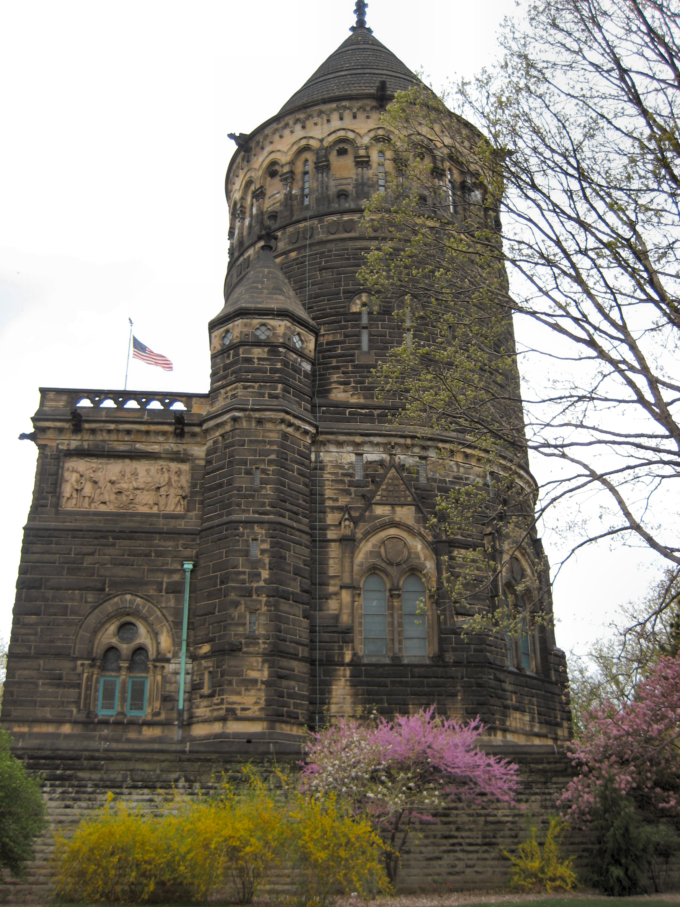 James A. Garfield Memorial, Cleveland.